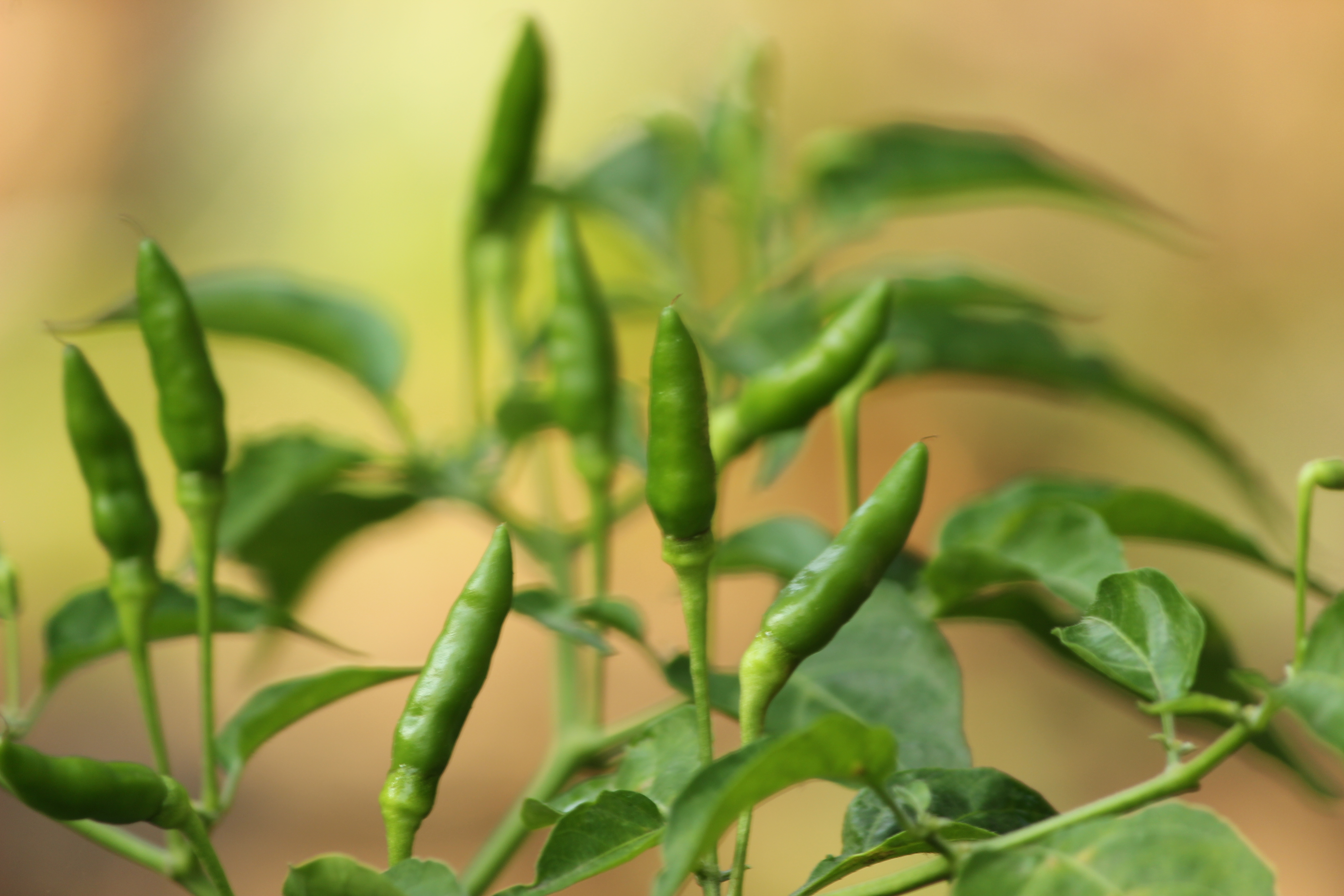 Capsicum frutescens' fruits (green), from Kerala